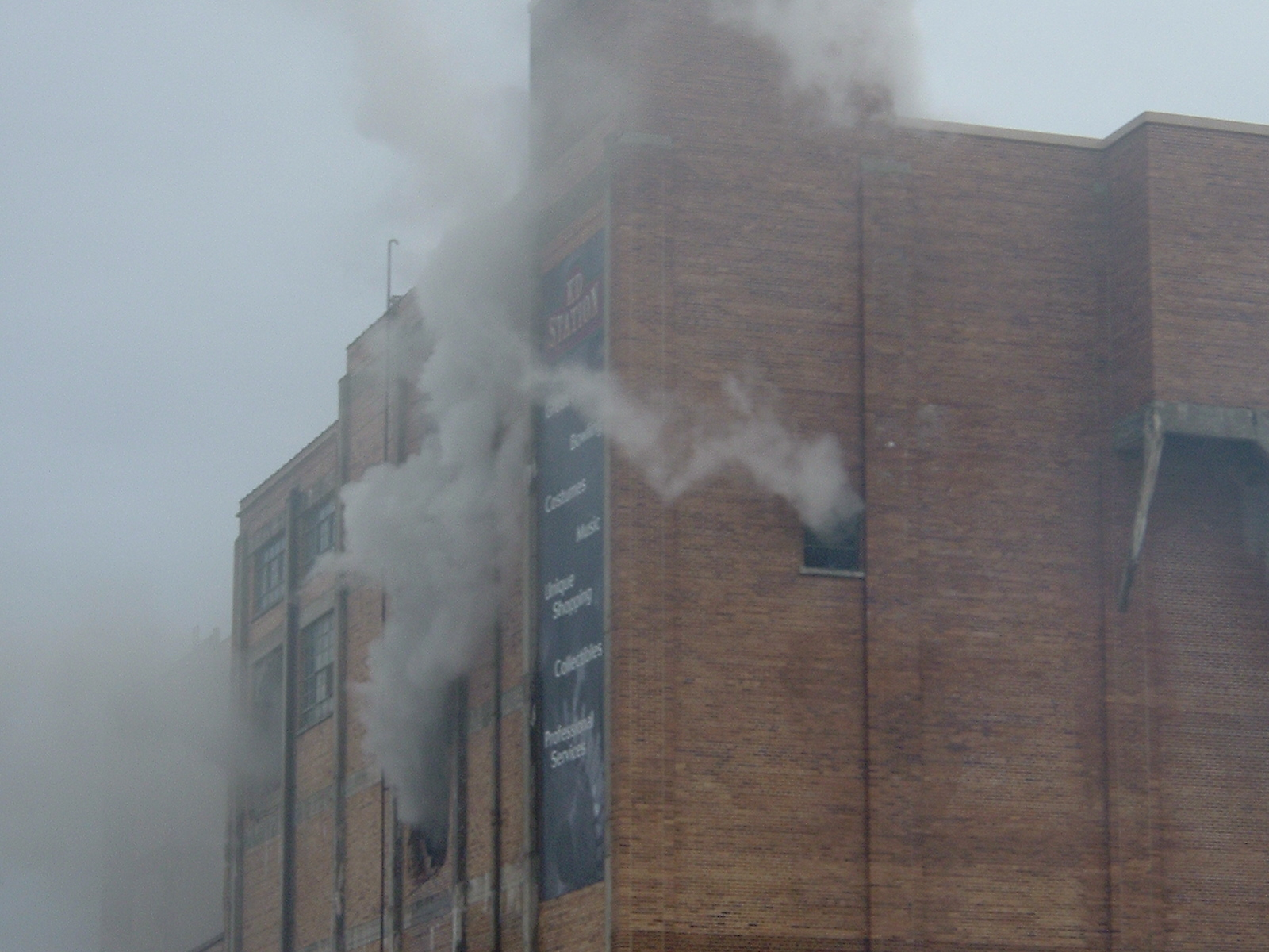 Smoke pouring out from a newly created hole in KD Bowl.